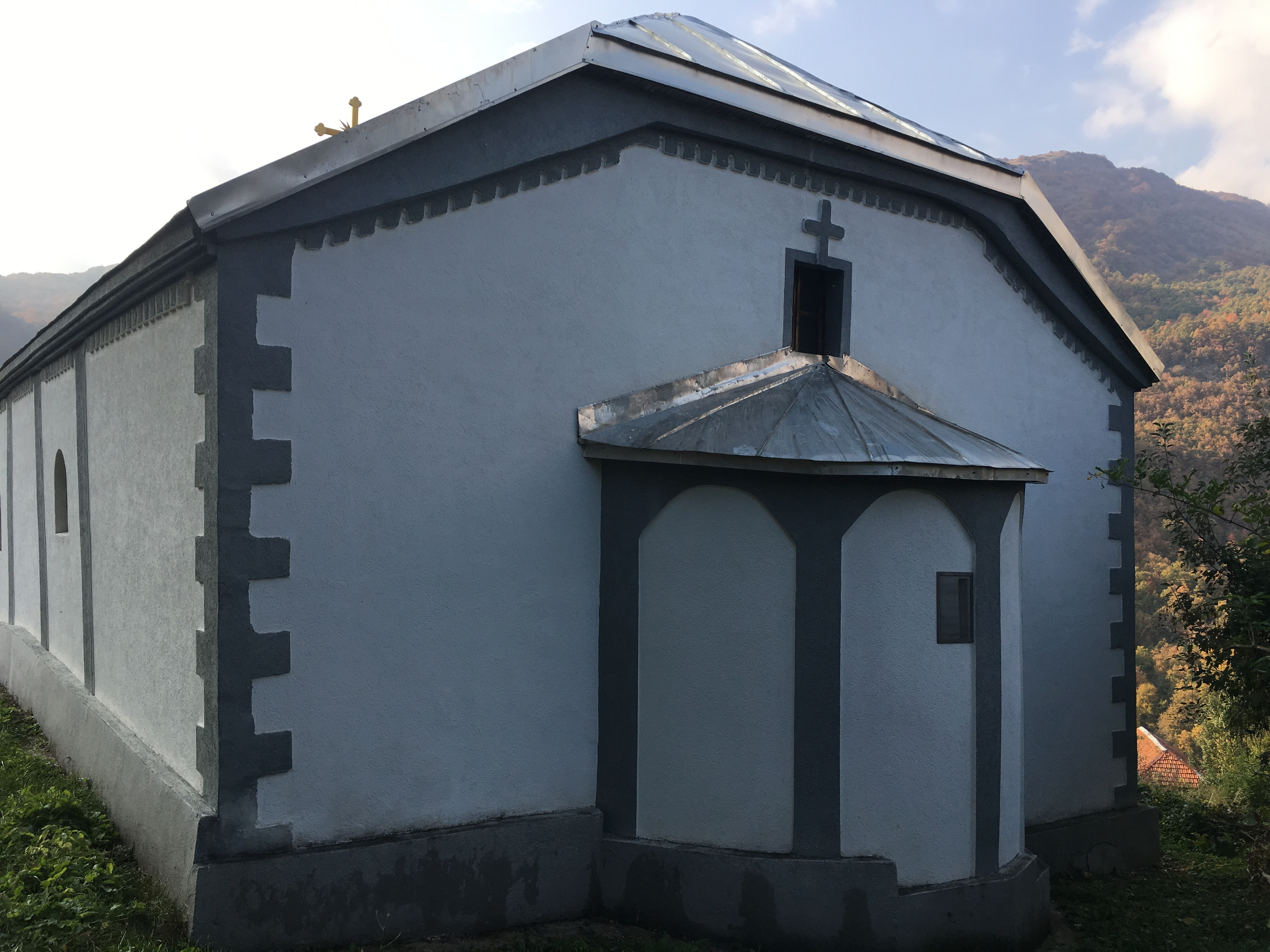 Wikiexpedition to Kopačka